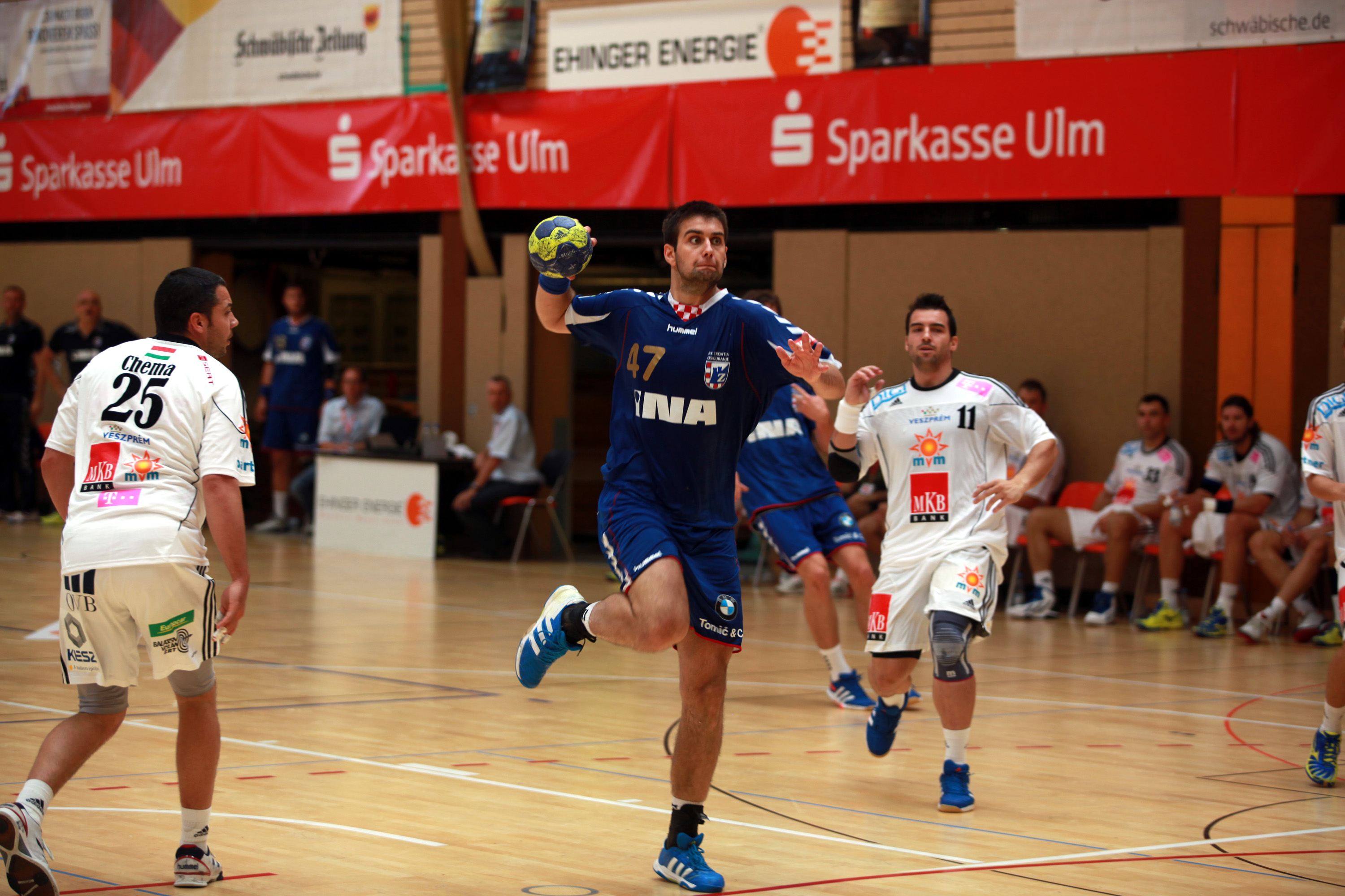 Ante Kaleb, on August 17th, 2012 in Ehingen (Germany), during the Sparkassen Cup (formerly known as Schlecker Cup).